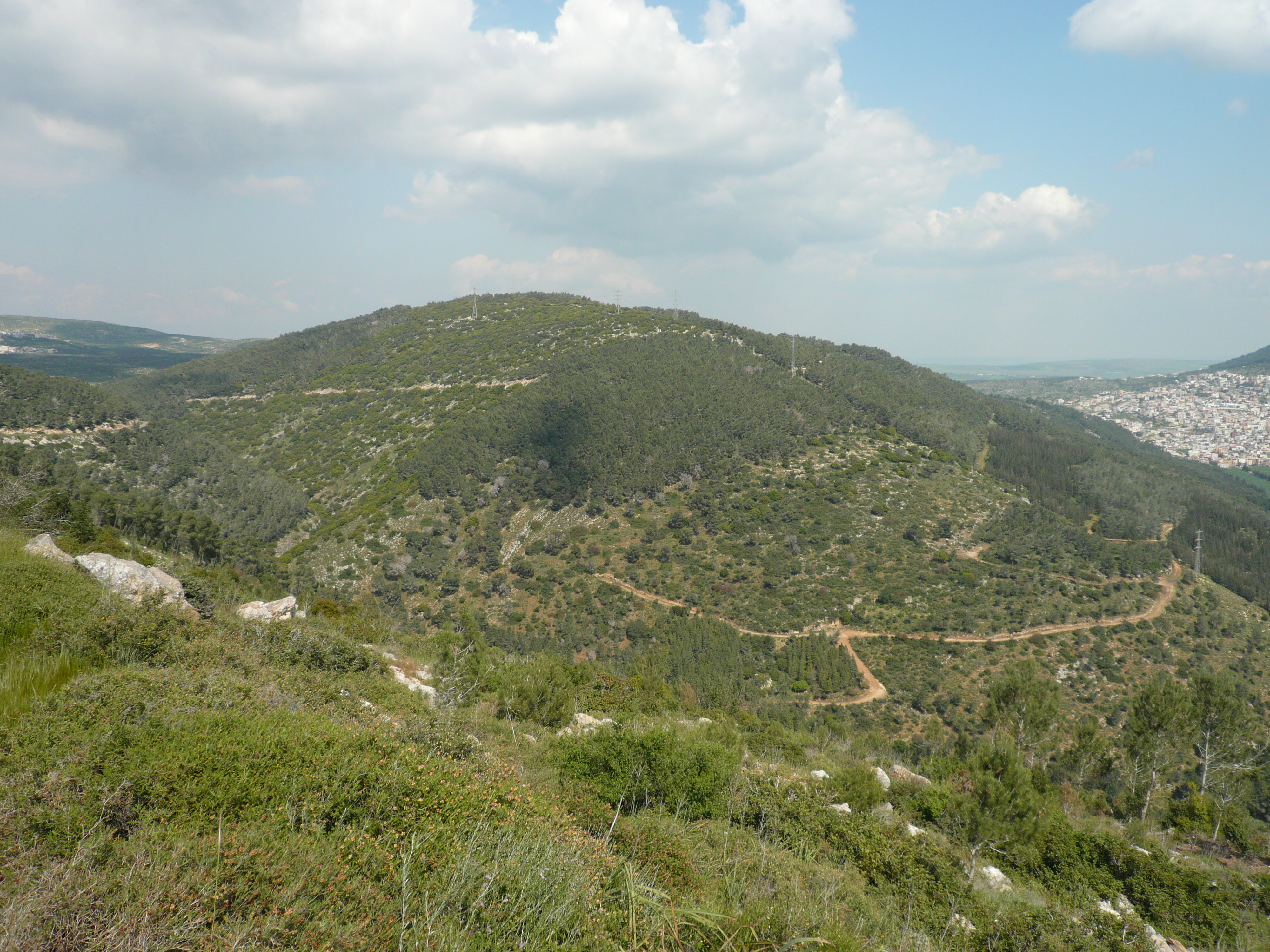 Har Dvora, mountain in Israel